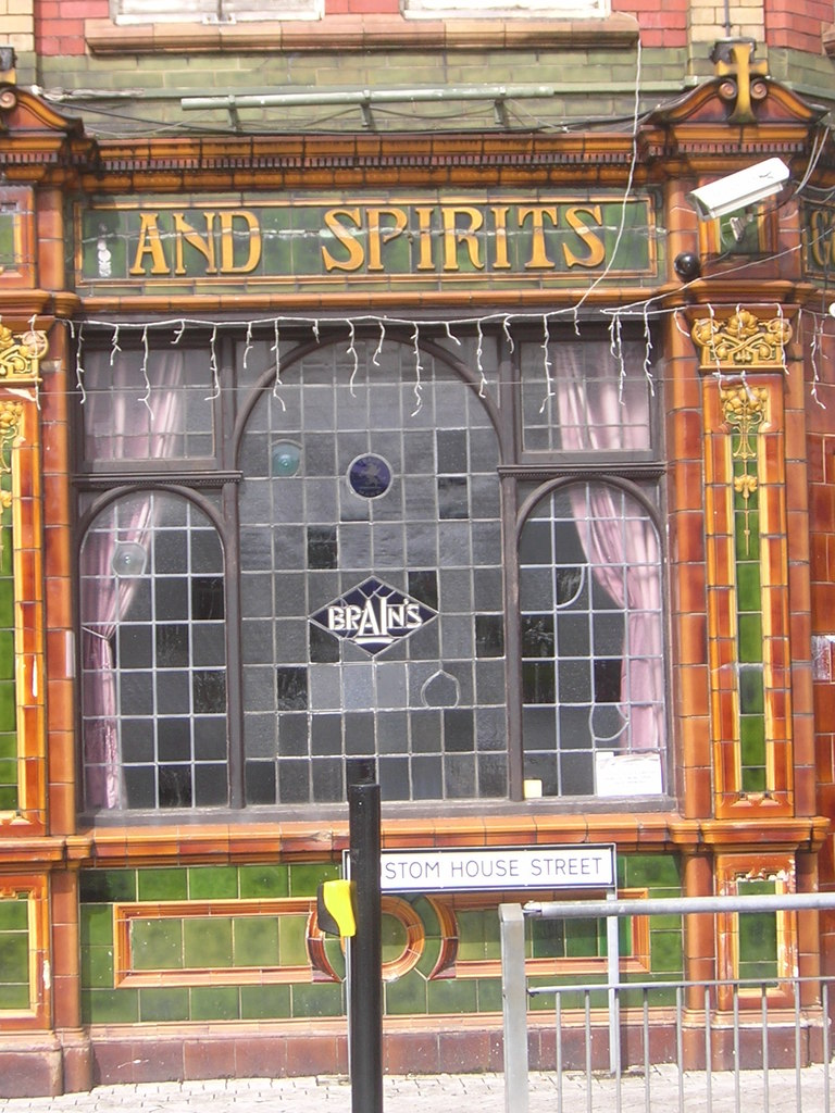 Golden Cross pub, Custom House Street, Cardiff